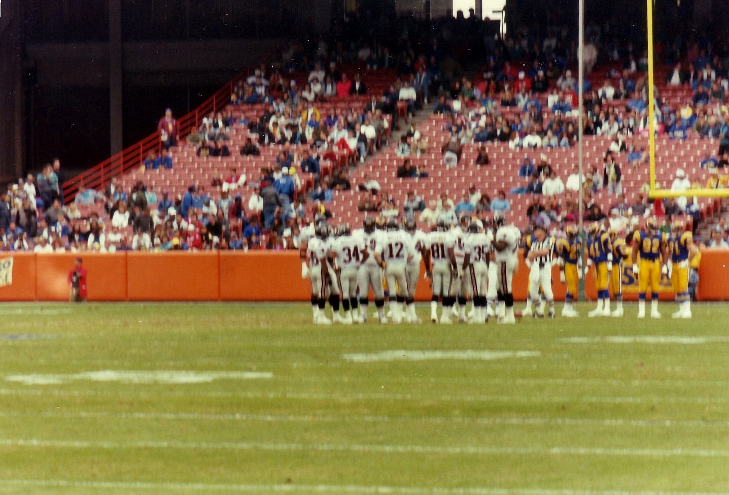 The Los Angeles Rams playing host to the Atlanta Falcons during a December 8, 1991 home game at Anaheim Stadium. This photograph was taken using an unspecified 35mm camera and scanned using a Canon CanoScan LiDE 60 scanner